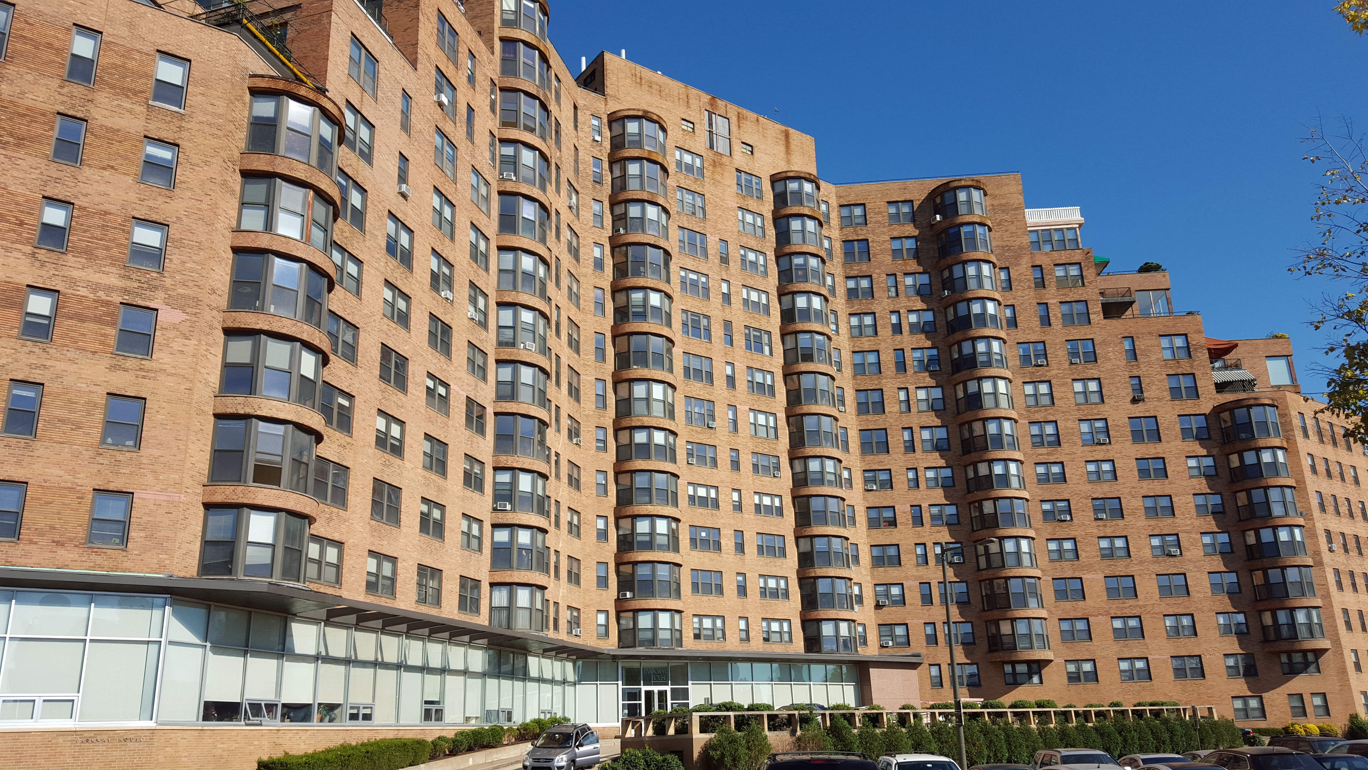 The Parkway House in Philadelphia as viewed from the southwest